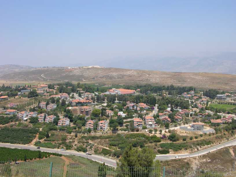 View of Metula, Israel, in the background UN post in Lebanon (June 2007)